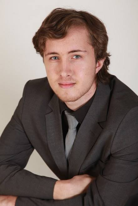 Martin Vargic - Photo